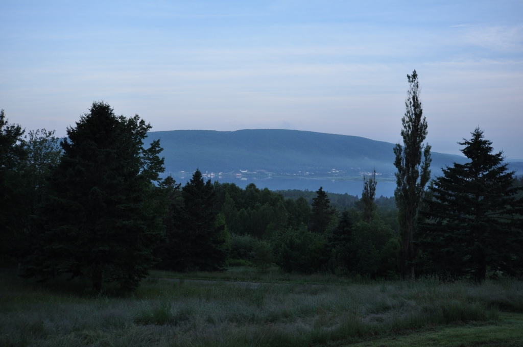 View of the Whycocomagh 2 Mi'kmaq First Nations reserve on Cape Breton Island.